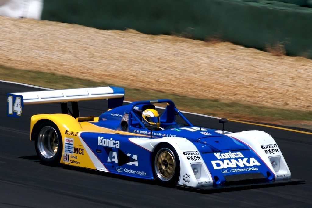 Riley & Scott Mk III at the Historic Sportscar Racing Mitty Challenge at Road Atlanta 2007